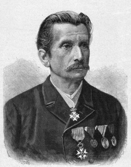 Leopold von Sacher-Masoch (1836–1895) - Austrian writer and journalist, who gained renown for his romantic stories of Galizian life. The term masochism is derived from his name.